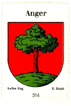 Historical arms of Anger (Austria)